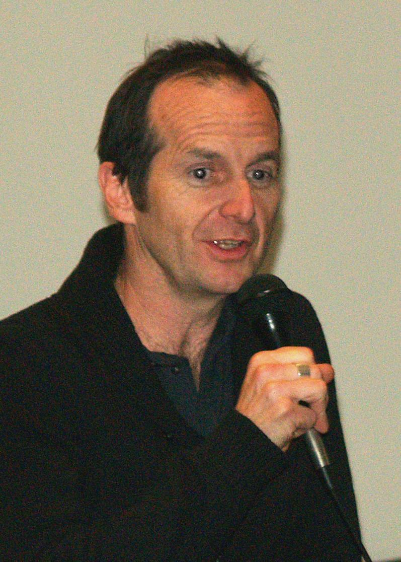 Denis O'Hare discussing the film Milk about Harvey Milk.